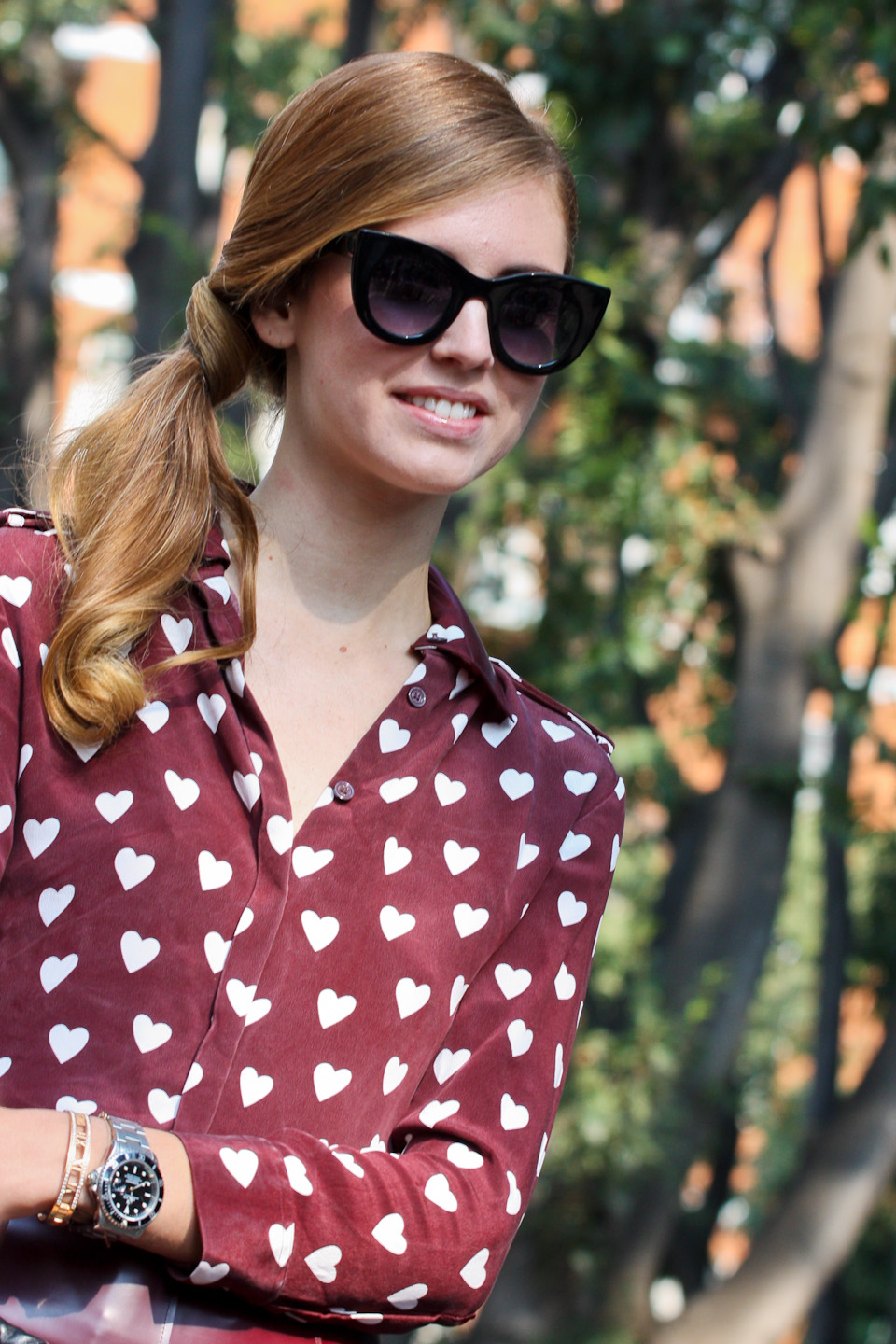 MFW street, Giorgio Armani Show, Milan Fashion Week 2013, model and blogger Chiara Ferragni